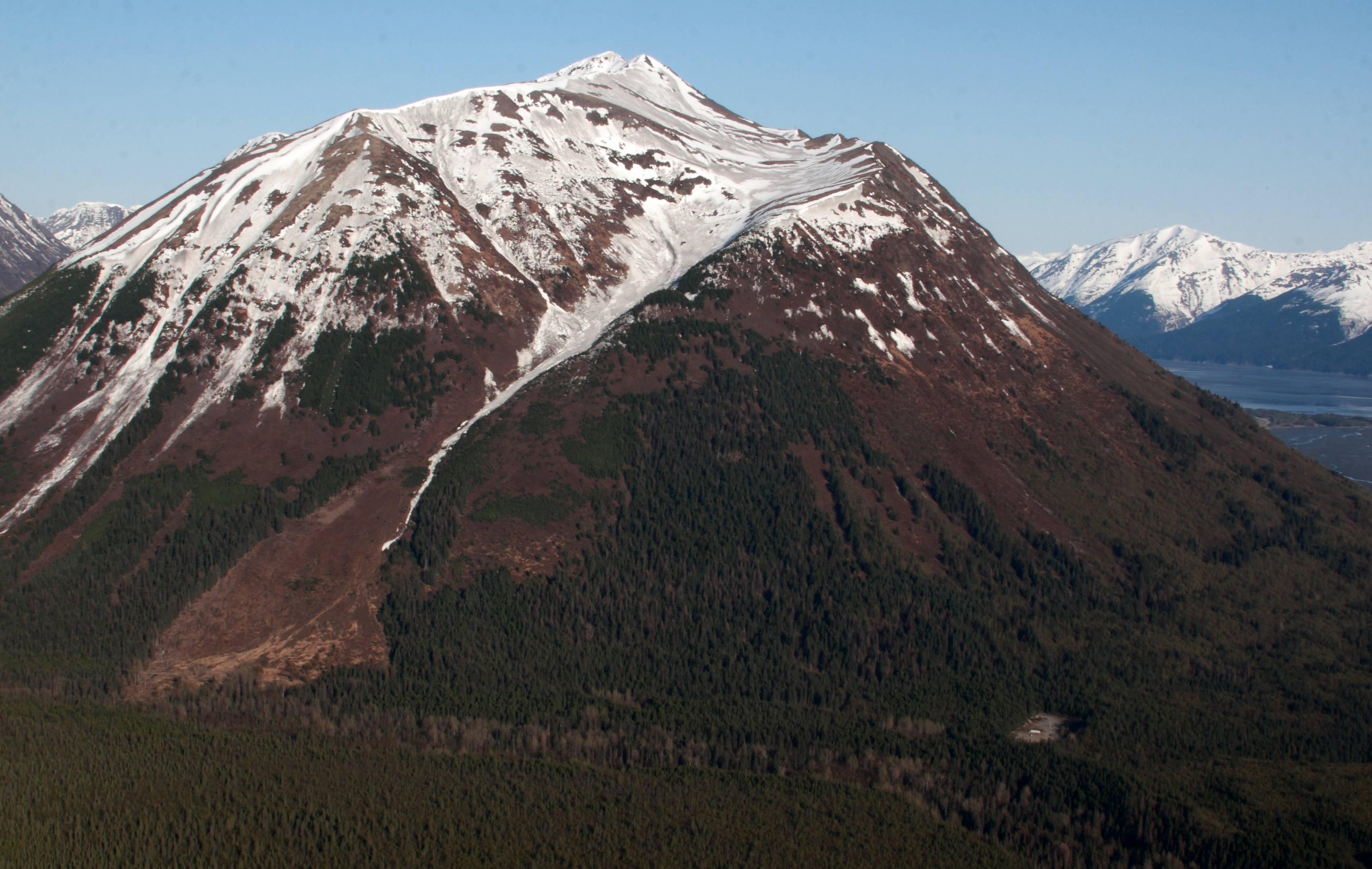 In May 2009, the Anchorage Adventurers Meetup group went on a Heart and Lunger hike to Bird Ridge. This is a steep climb - it climbs about 4,000 feet in a few miles - it is a good conditioning hike. About 30 people started up the trail - some were focused and very fit, the rest of us were out to check out the scenery and take advantage of the great weather. I climbed for about 1.5 hours, not sure how high I got or how far, but the views were incredible. The only downer was a soon as I stopped the mosquitoes swarmed all over me. I think I sweated out my Cutters - ended up with over 100 bites - it was nasty and I was sore for a few days after that, but a good time was had by all!